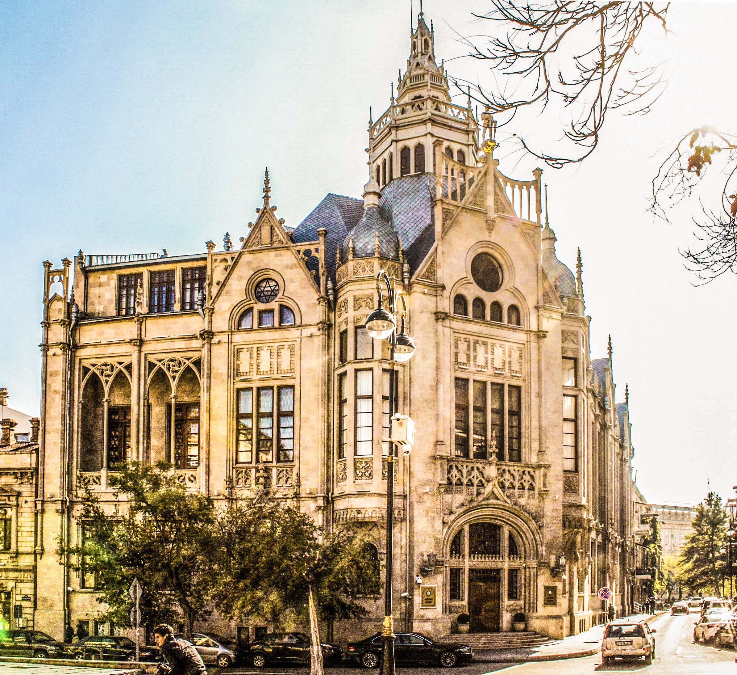 Palace of Happiness façade